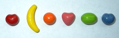 Digital photograph of cherry, banana, orange, strawberry, watermelon and blue raspberry runts candy in relation to a U.S. quarter. Original uploader took this photo with a Panasonic Lumix DMC-LC20.